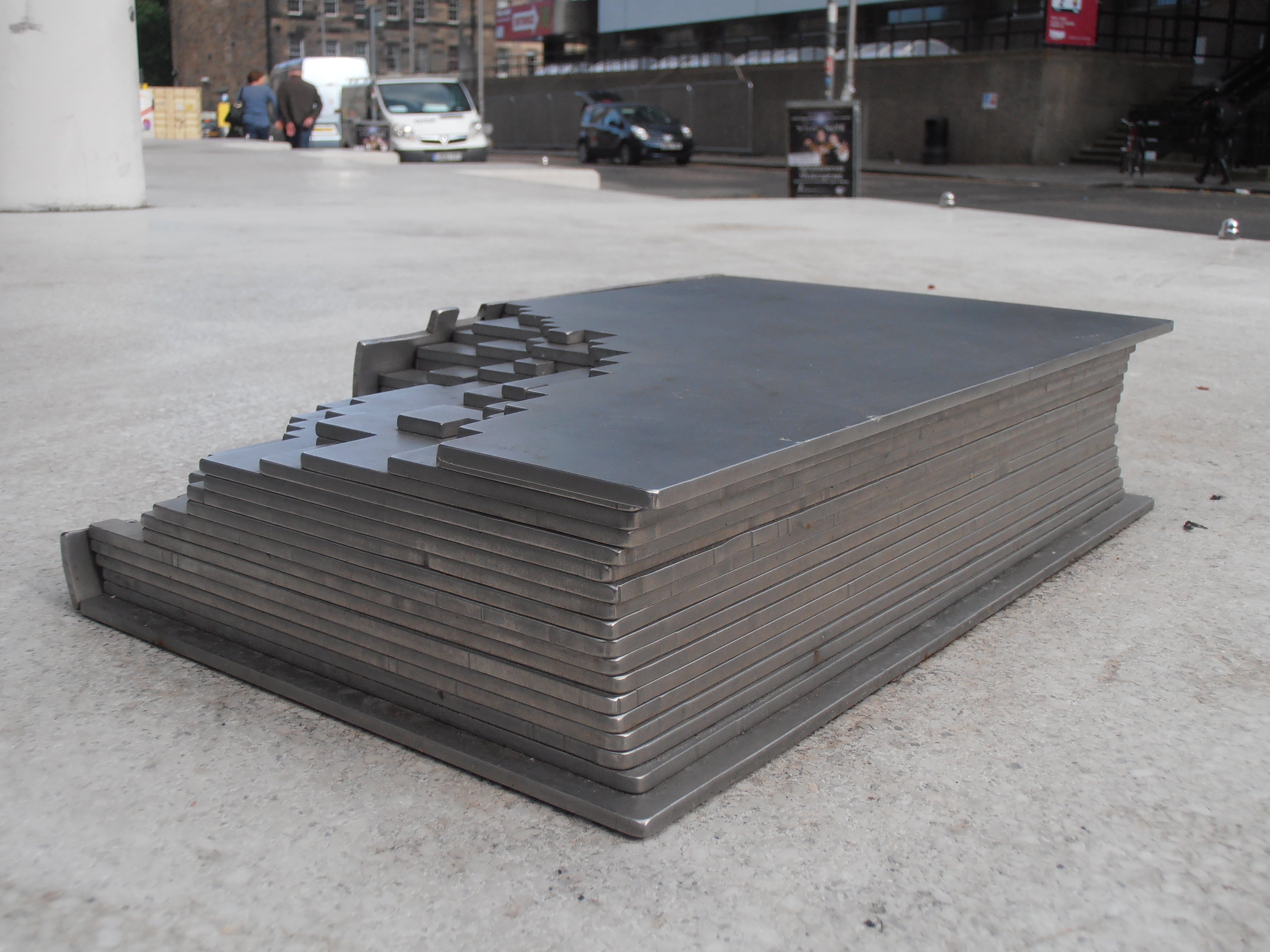 The Haynes Nano-stage, a stainless steel sculpture outside the University of Edinburgh's Informatics Forum. Unveiled on the 22nd of August 2012 by Jim Haynes, it commemorates his Paperback Bookshop which stood nearby on George Square in the 1950s and '60s. A plaque below is inscribed: "The Haynes Nano-stage" sculpture by David/ Forsyth is in celebration of the cultural richness of/ Jim Haynes' Paperback Bookshop (1959-67) and/ of the merger between the University of Edinburgh/ and Edinburgh/ College of Art (2011) which extends/ that richness many-fold.